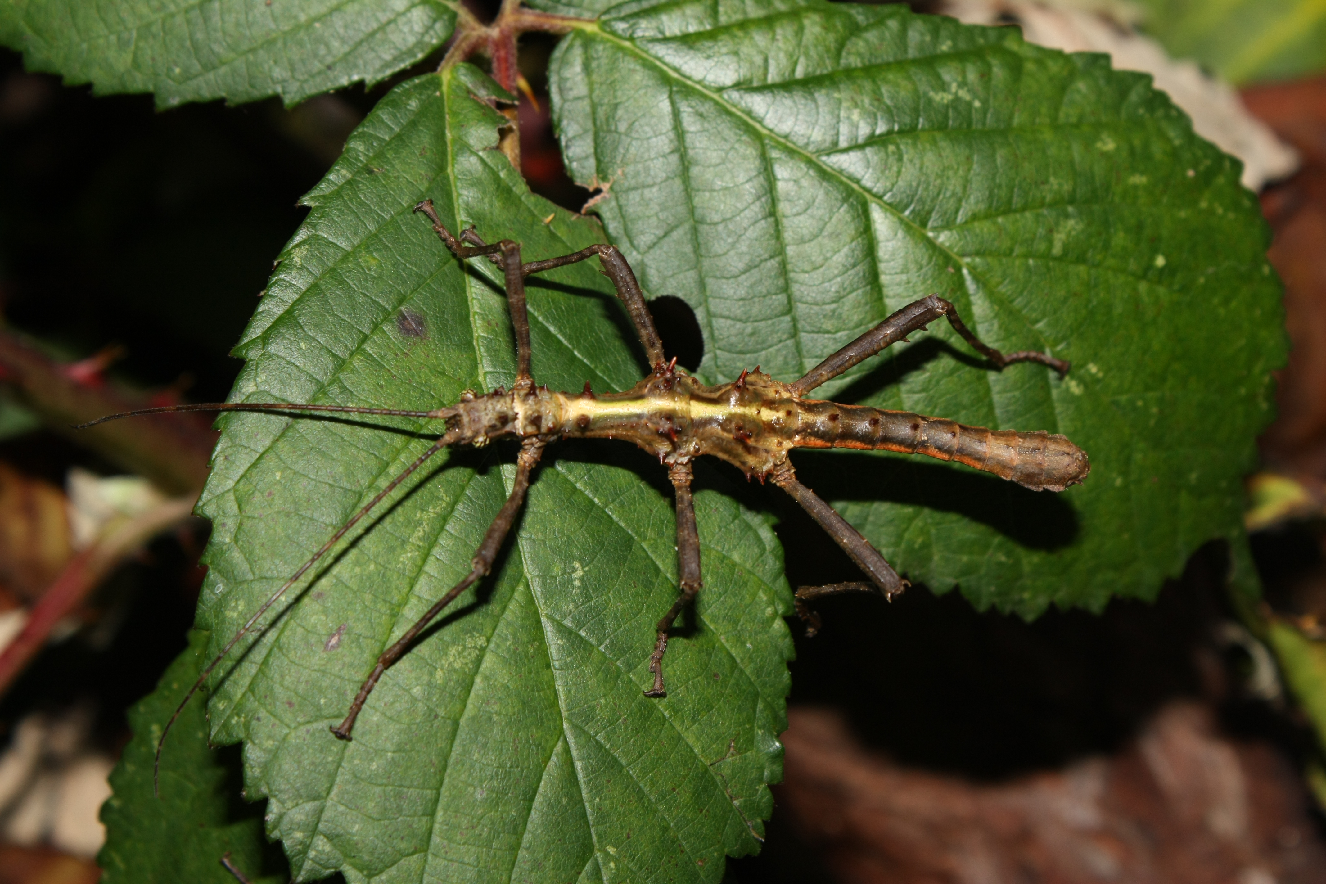 male of Aretaon sp. Palawan, a non identificated or undescribed kind of the Genus Aretaon from the philippine island Palawan